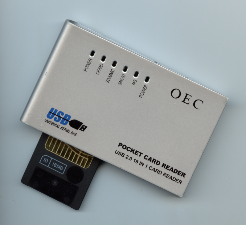 A USB Card Reader like this one, will typically implement the USB mass storage device class.